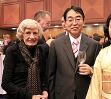 Věnceslava Hrdličková, Associate Professor of the Faculty of Arts, Charles University, attended the Reception to Celebrate the Emperor's Birthday with Hideaki Kumazawa, Ambassador to the Czech Republic, at Hilton Prague in Prague City on December 7, 2006.